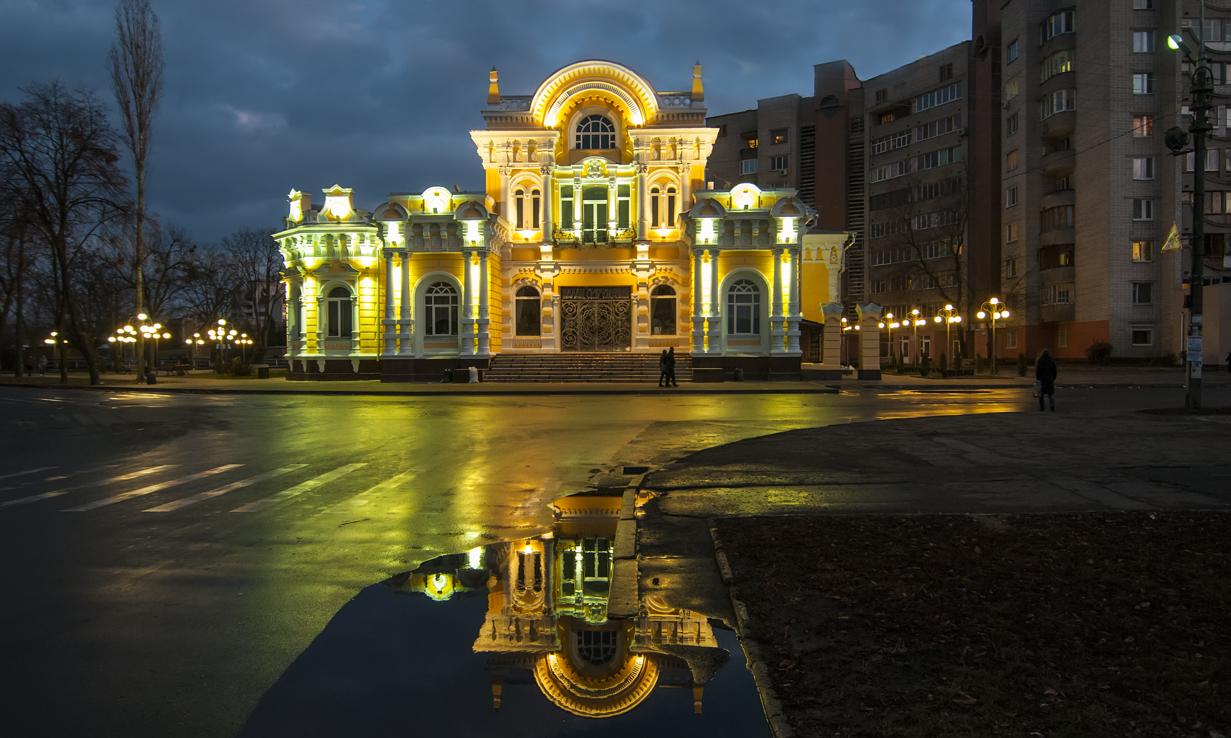 Wedding Palace in Cherkasy